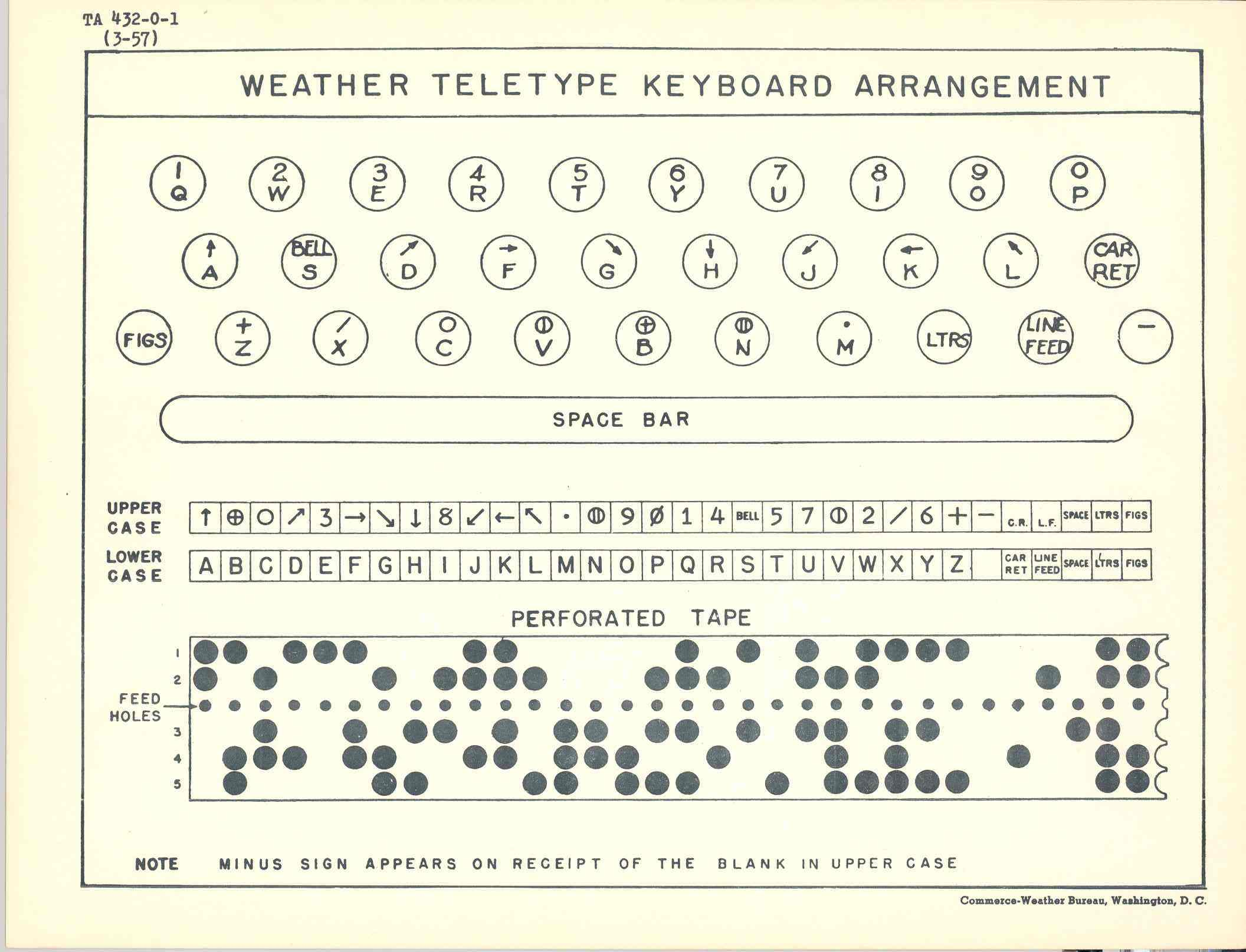 Special version of the 5-bit Baudot code used to send weather information on teleprinter circuits.